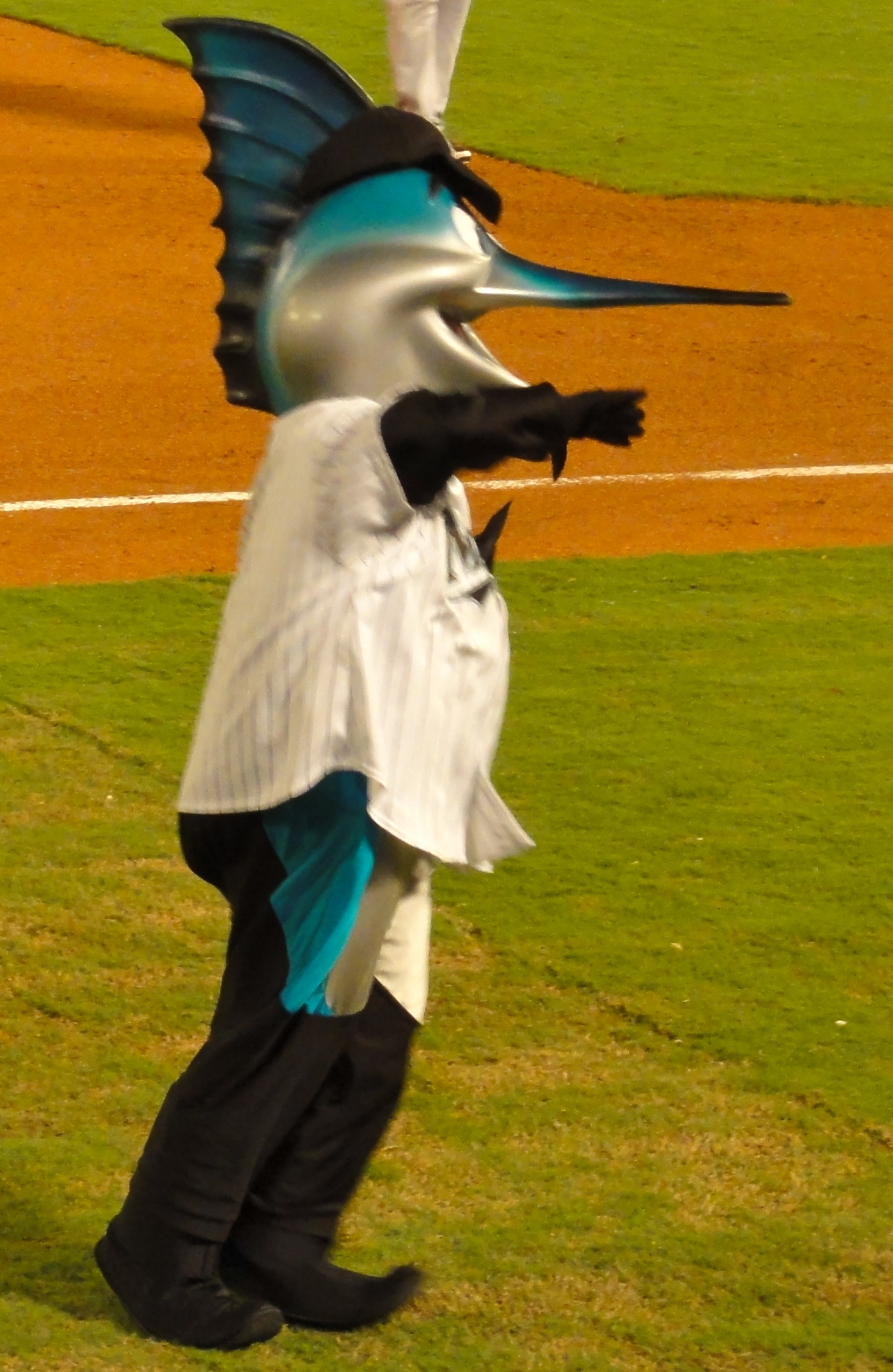 Florida Marlins mascot Billy the Marlin at Sun Life Stadium, 2011.